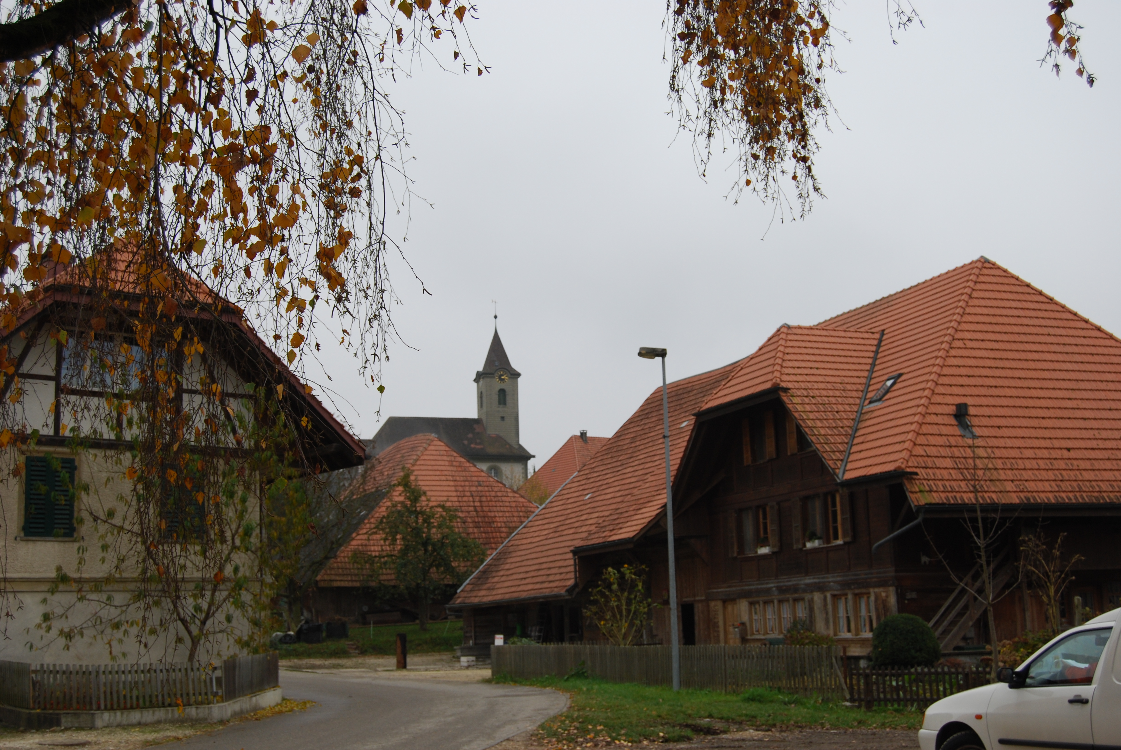 Protestant Church of Limpach, canton of Bern, Switzerland